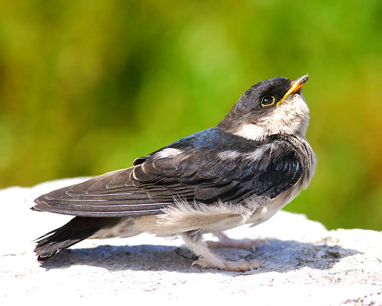 Asian House Martin in Taiwan.